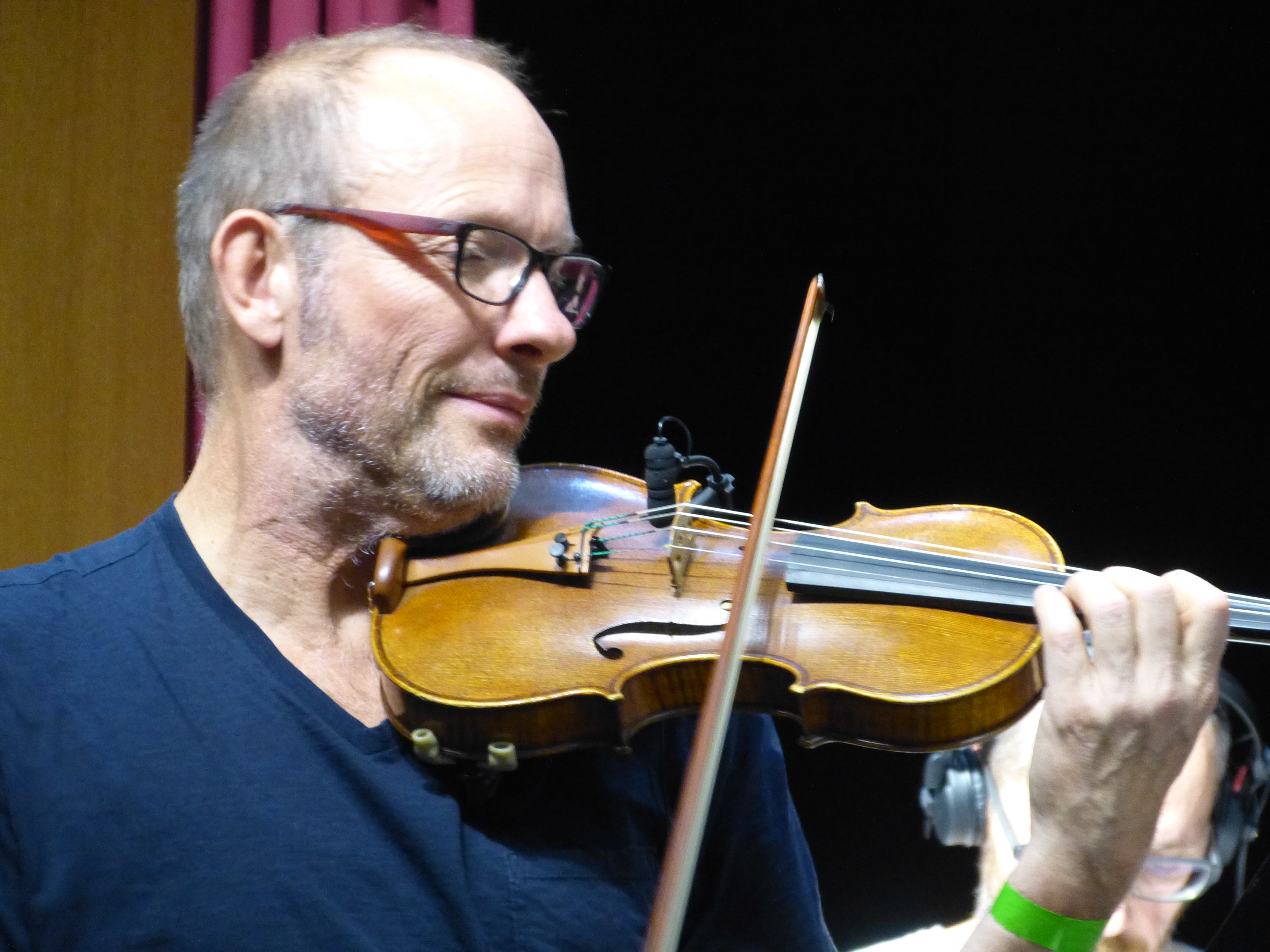 Albrecht Maurer (v) in concert „Live Remix“ with ‚Tonstrom Quartett & Alex Gunia’ in the concert event „Cologne Music Night“ at Thyssen Foundation, Cologne, Germany, September 19th, 2015